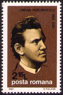 Ciprian_Porumbescu_stamp_1981